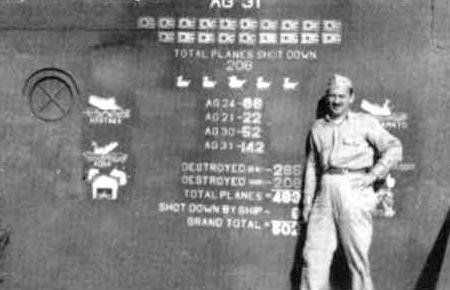 USS Belleau Wood (CVL-24) island, showing WWII record.